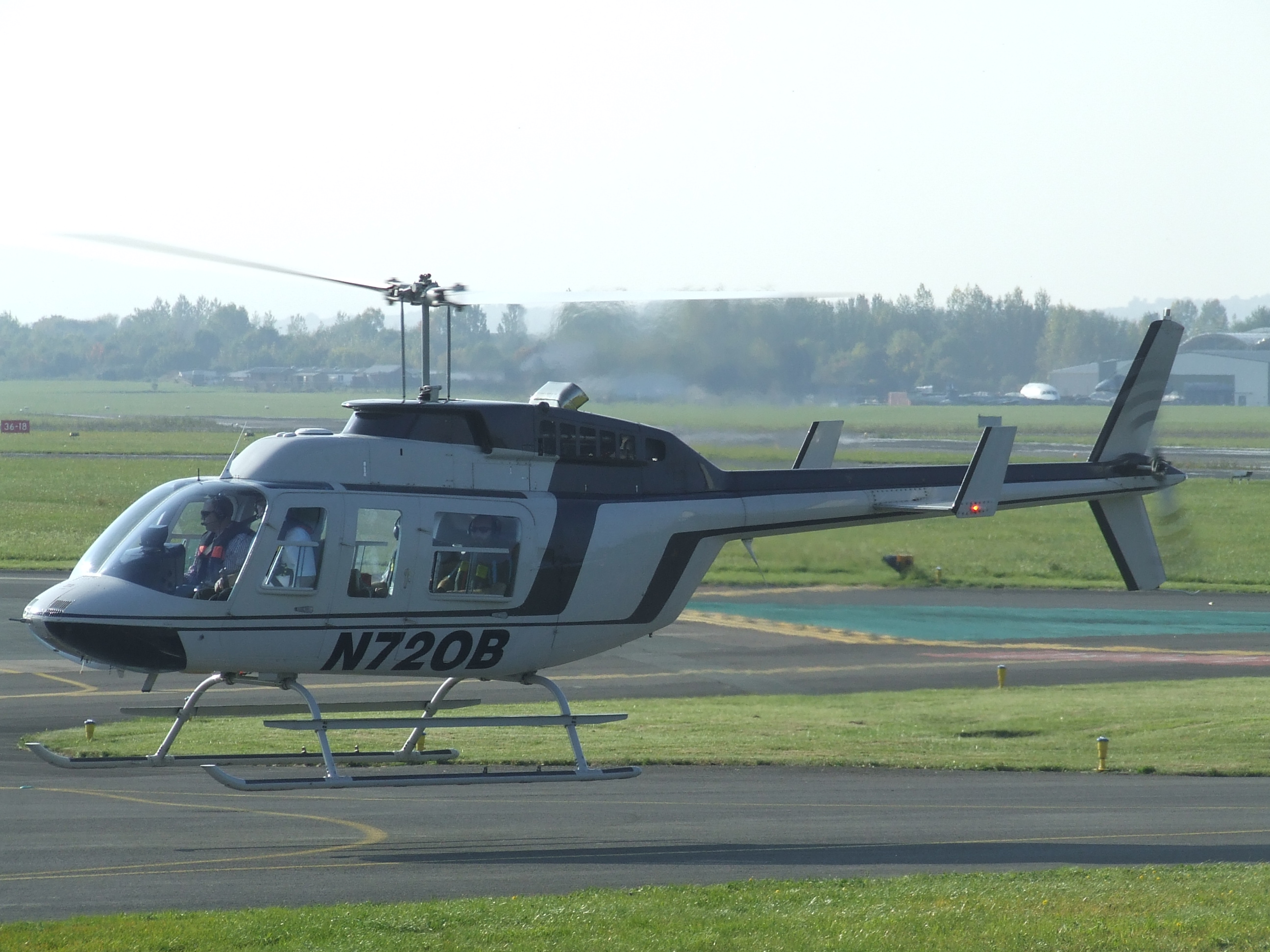 At Gloucestershire Airport.